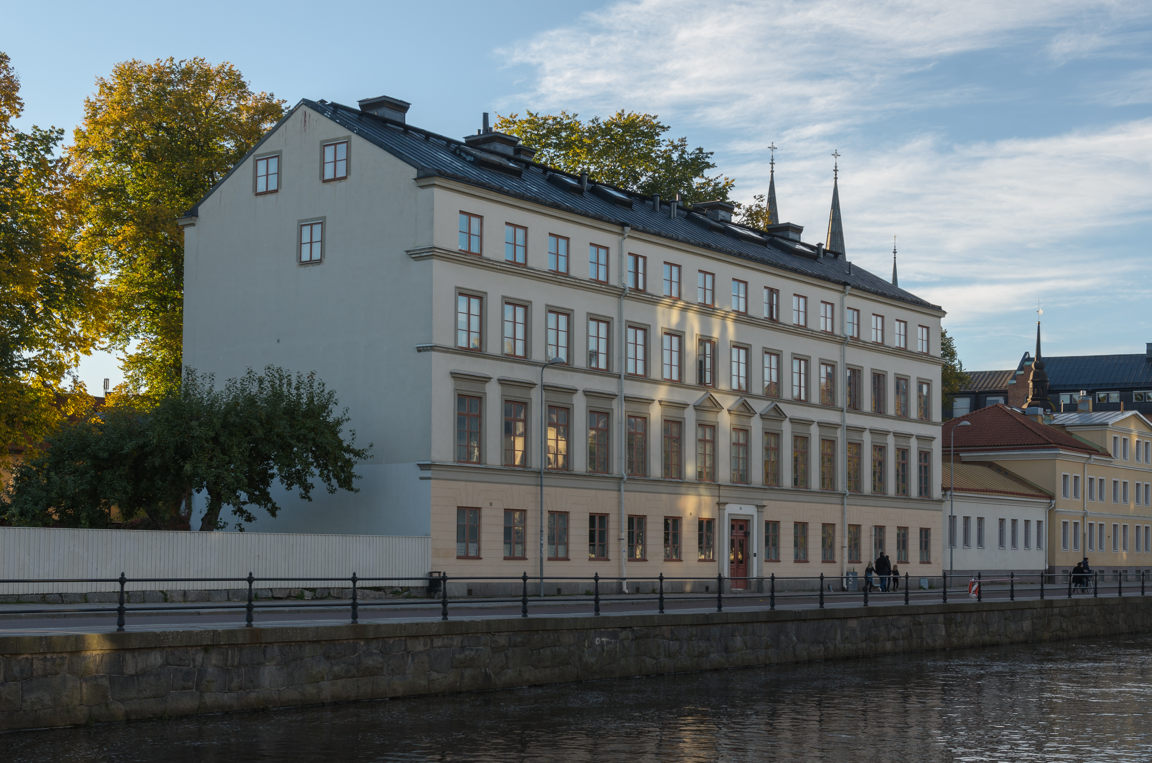 Residential building Olympen (Olympus) built 1853 at Västra Ågatan in Uppsala, Sweden.